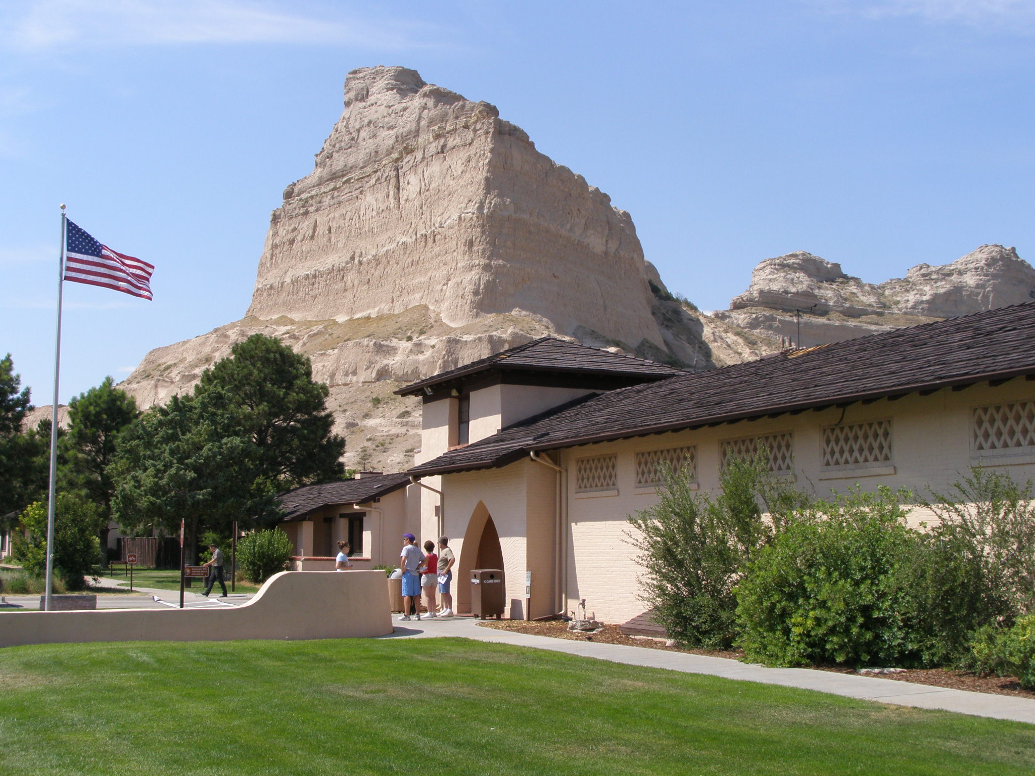 Scotts Bluff National Monument, Nebraska